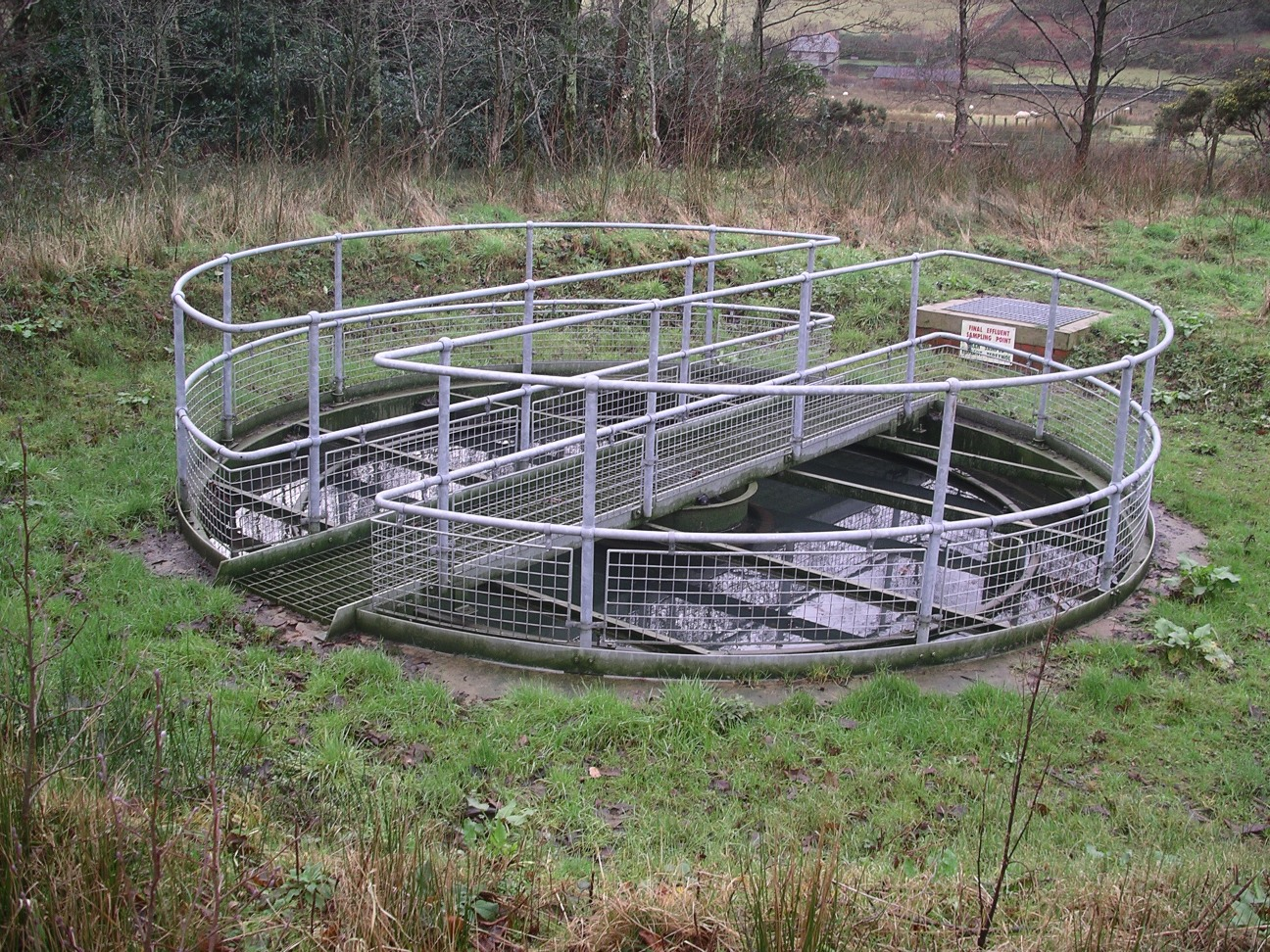 Secondary settlement tank of a sewage treatment plant